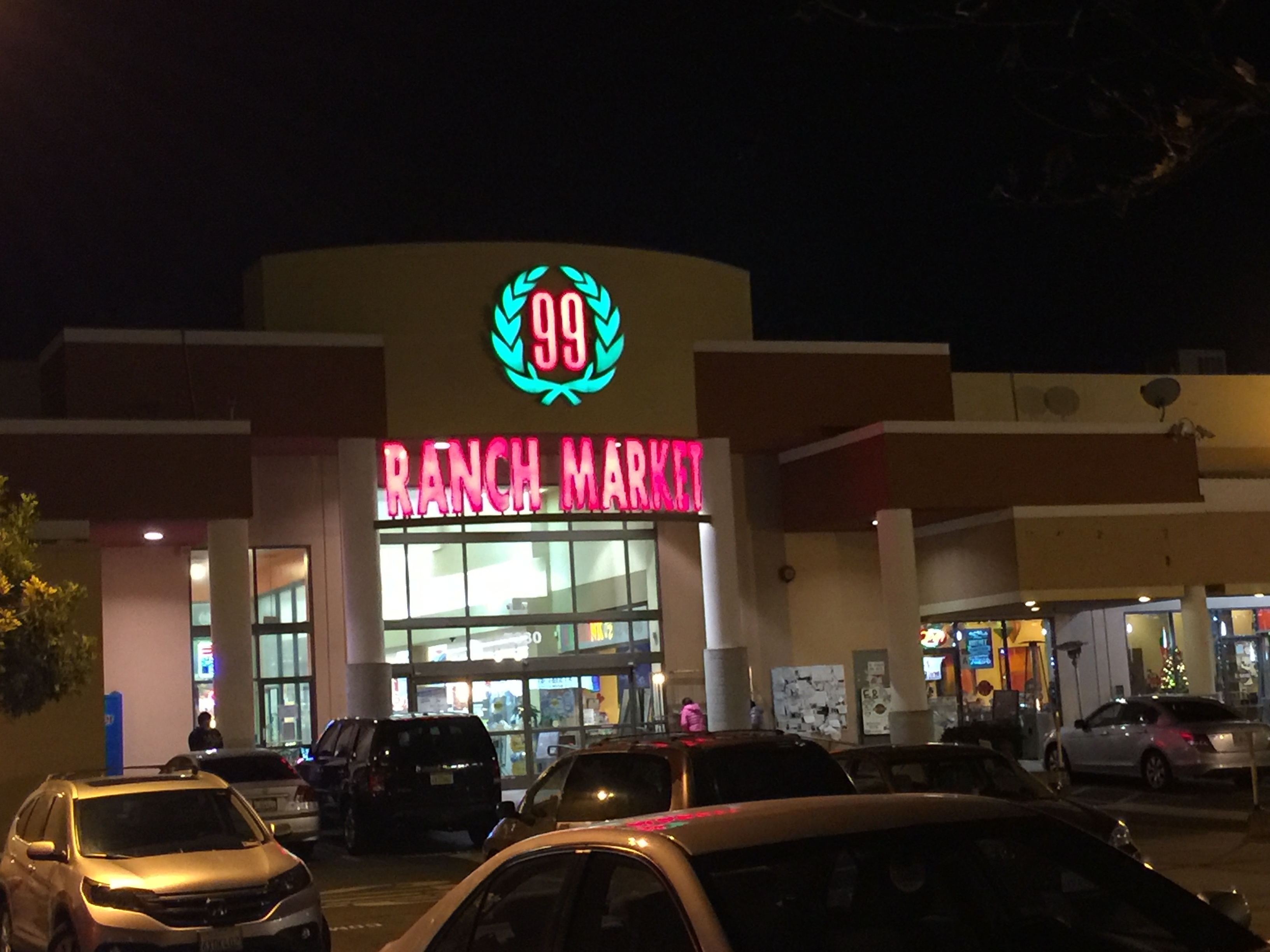 99 ranch market pic from my camera